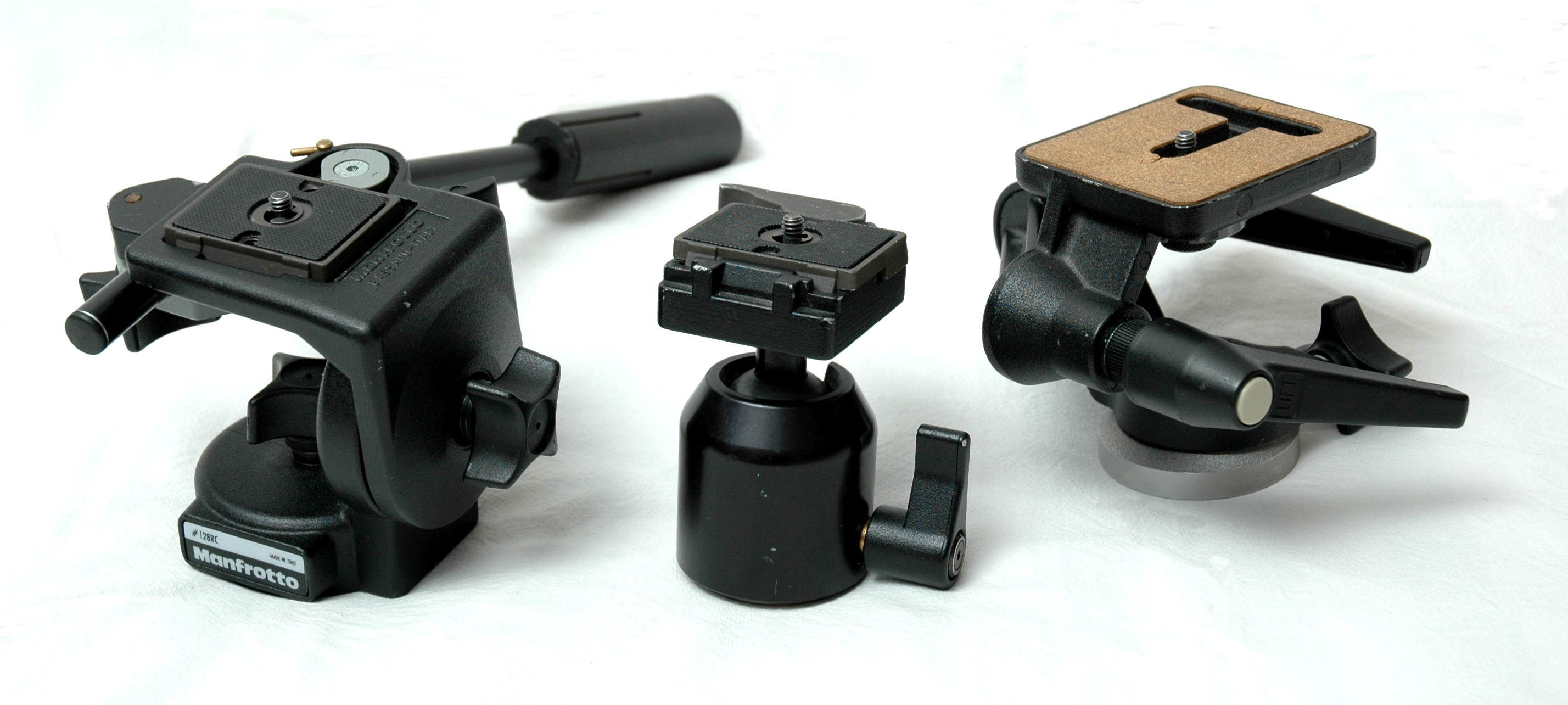 Tripod heads of three different types.